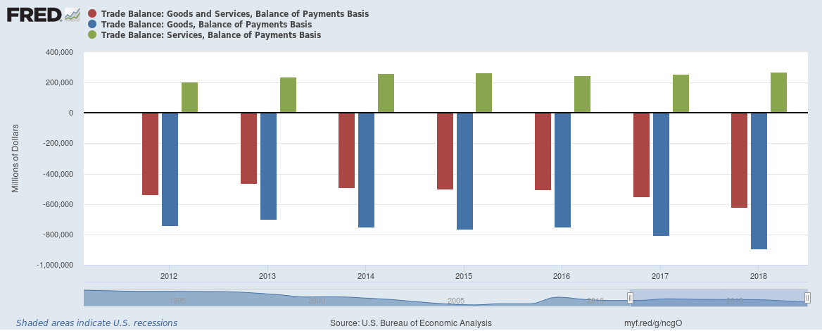 US Trade Deficit: Total, Goods and Services, 2012-2018